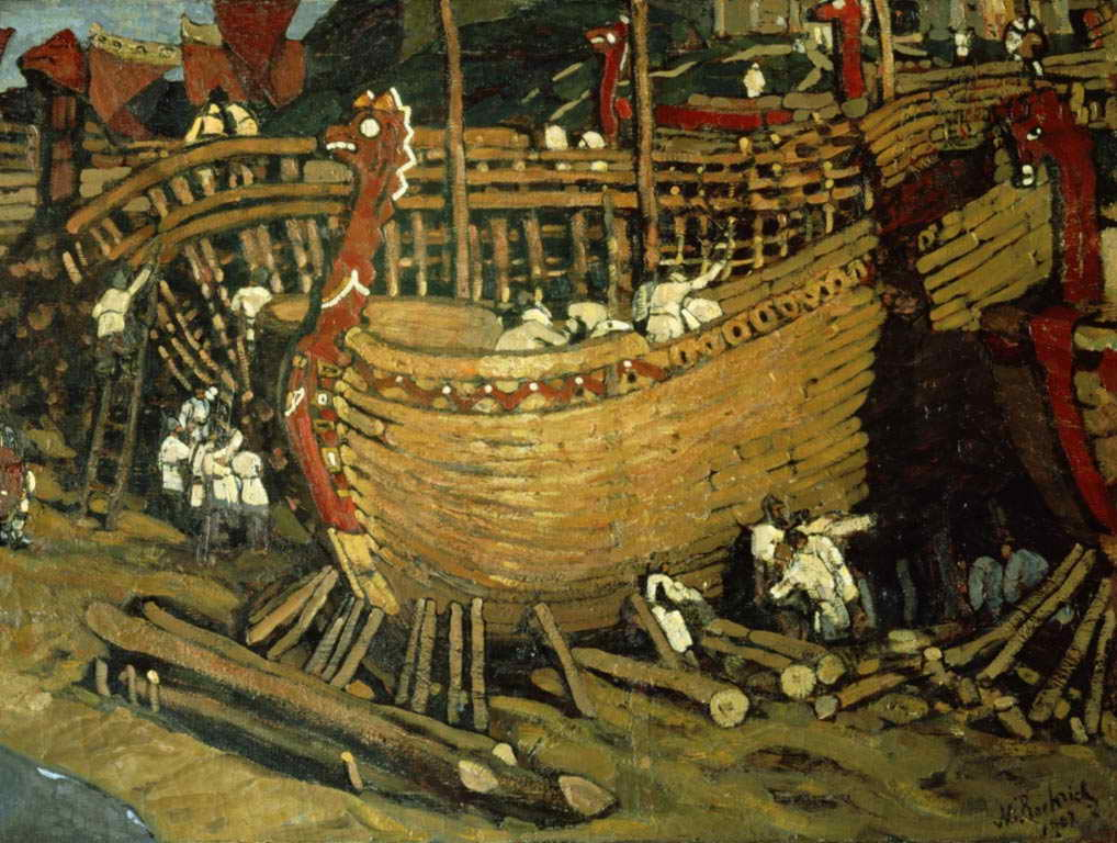 Ancient russians build the ships.